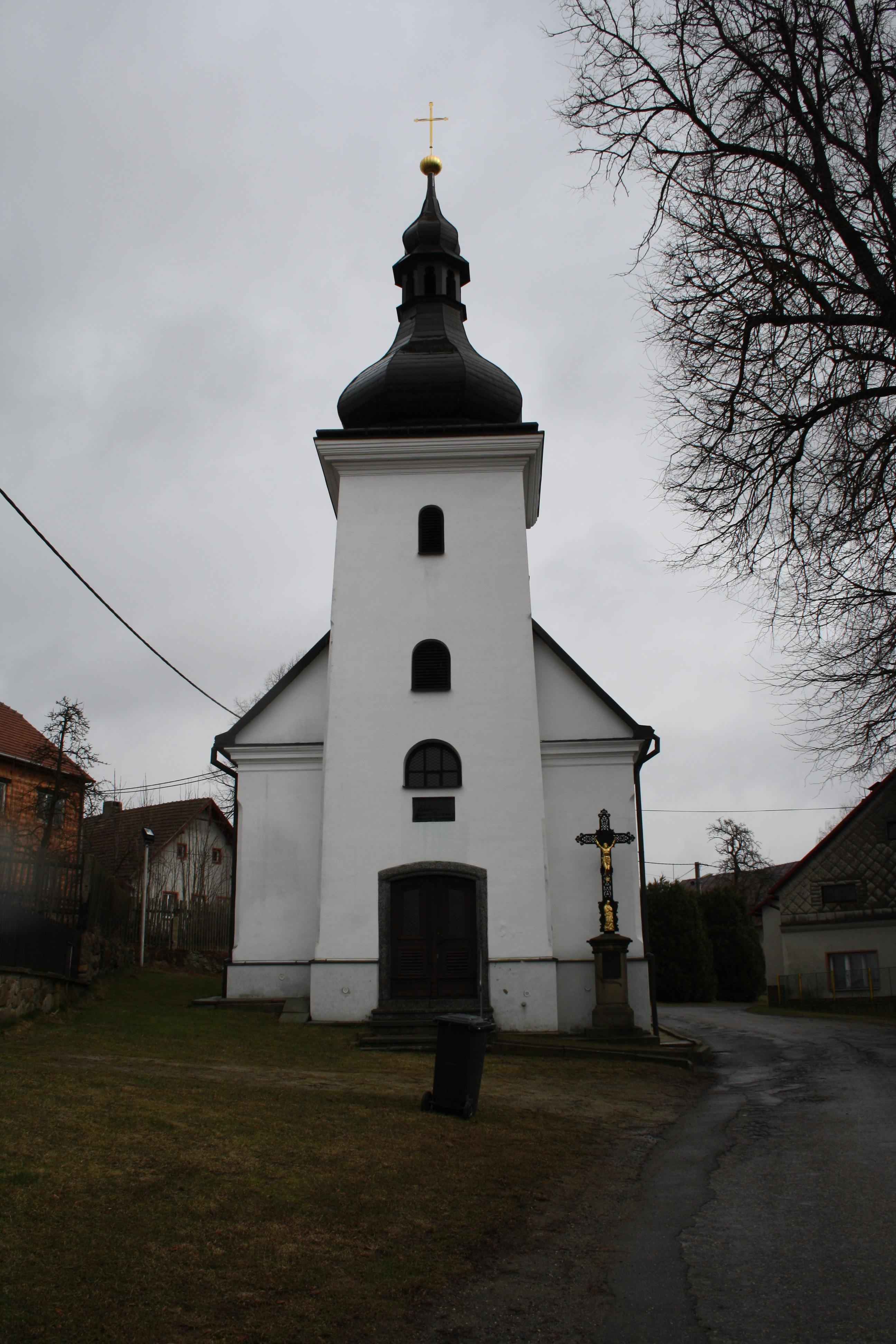 Chapel in Kochánov (Stránecká Zhoř).